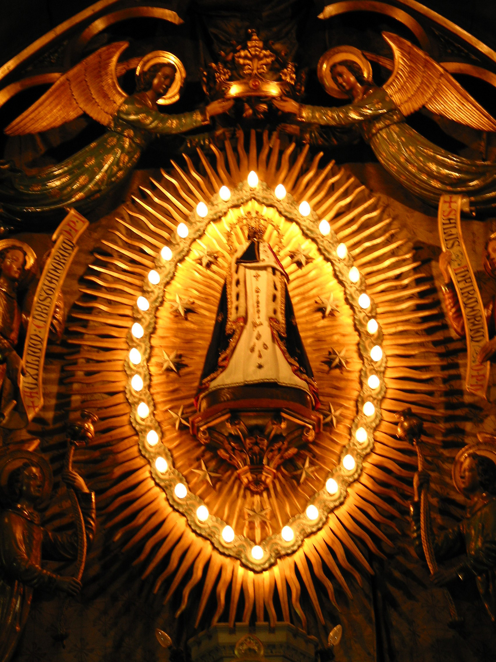 Bon-Secours (Belgium), statue of Our Lady of Bon-Secours.